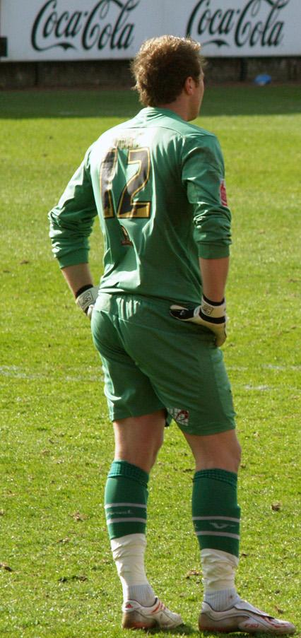 Chris Martin after conceding a goal to Bury in a 1-1 draw at Vale Park.